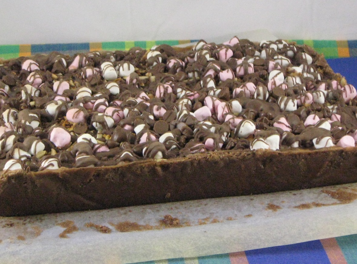 Rocky Road Brownies You can get the Rocky Road Brownies Recipe here : Feel free to use the image on your site or blog. Please link back to